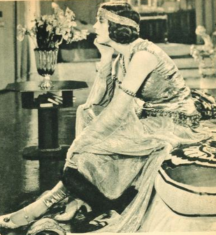 Alma Rubens, in "Enemies of Women", from a 1923 publication.